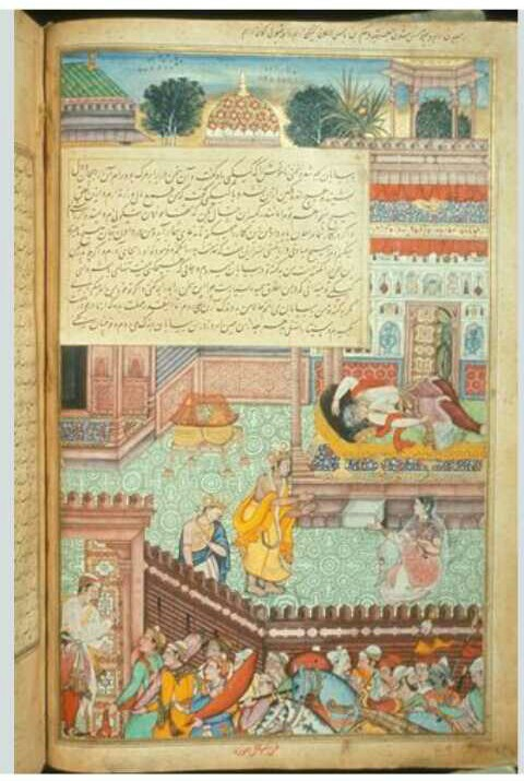 By kesava & Bhura